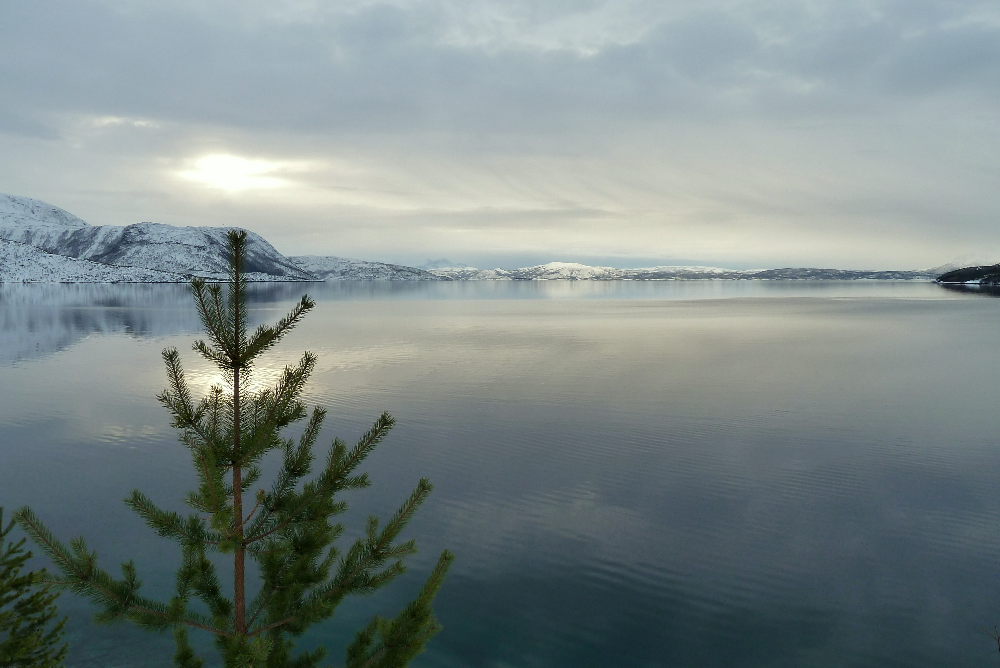 Haukøyfjorden in Tysfjord, Norway. Picture is taken from a point south of the small Haukøya.